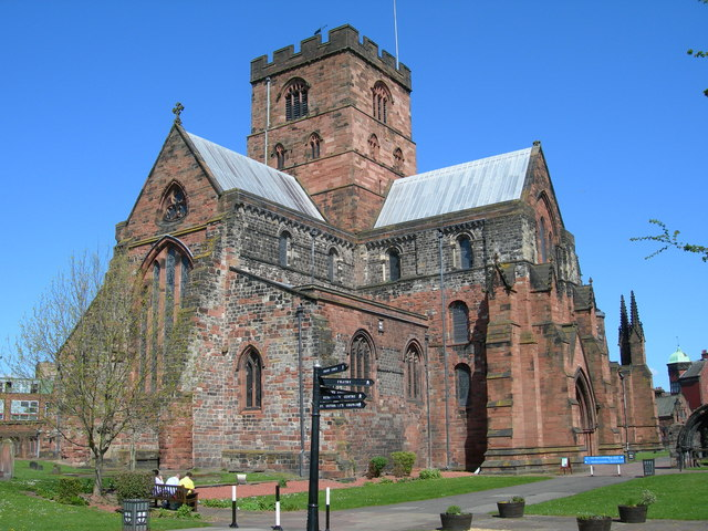 Carlisle Cathedral. Note the distinctive red stone colour. The Cathedral is not a particularly large one. The inside is very ornate. The official title of the Cathedral is 'The Cathedral Church of the Holy and Undivided Trinity'.